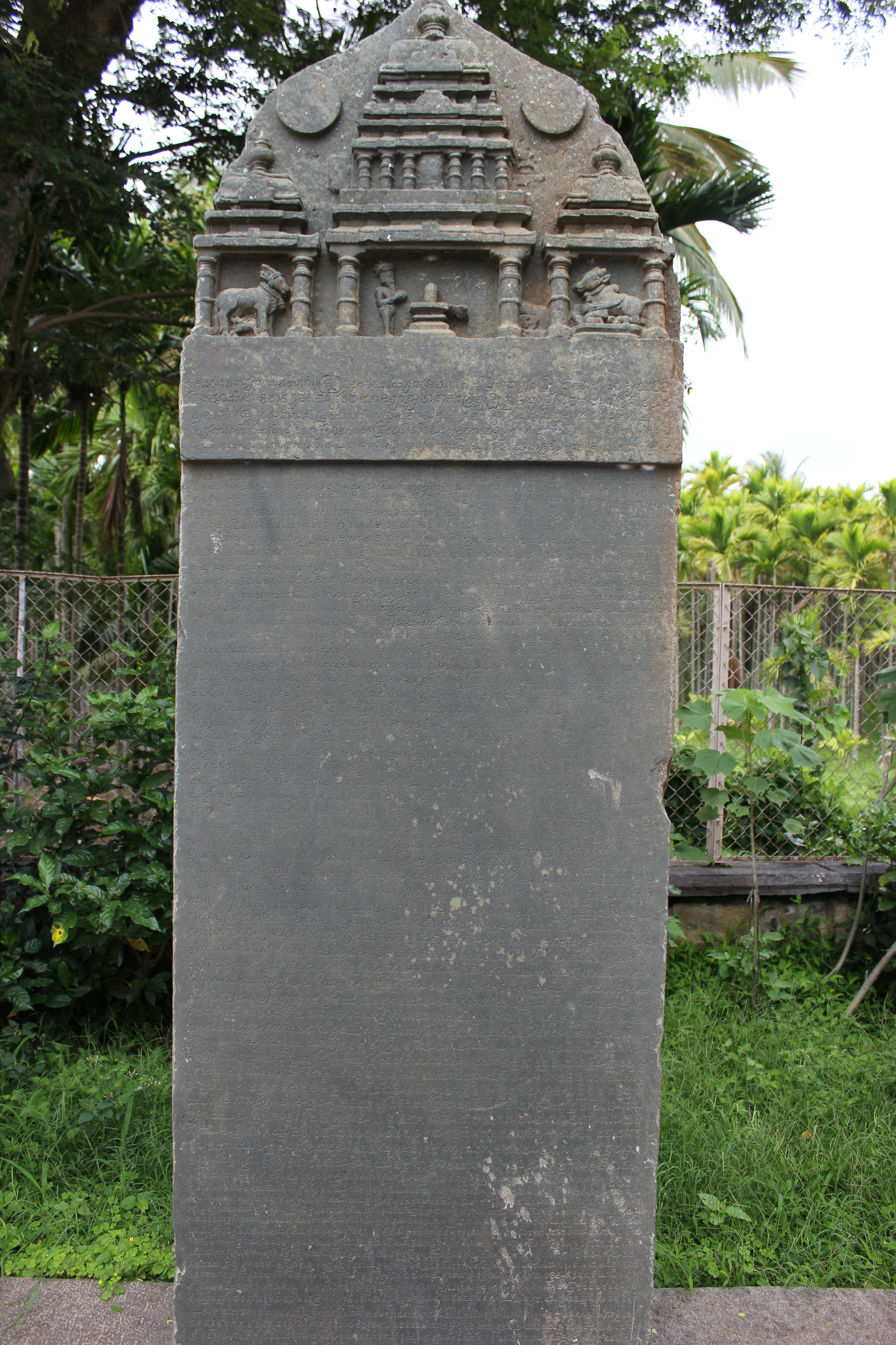 This photograph of a old Kannada inscription slab (1129 A.D.) from the rule of Western Chalukya Empire King Someshvara III was taken by me at the Kedareshvara temple (also spelt Kedaresvara or Kedareshwara) in Balligavi (also called variously as Belgami, Belligave, Balligamve and Ballipura in ancient inscriptions) in the Shimoga district of Karnataka state, India. Source: Mysore inscriptions, pg.87, Benjamin Lewis Rice, Director of Public Instruction, Mysore and Coorg, Printed at Mysore Government Press, Bangalore, 1879